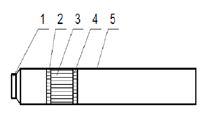 scheme